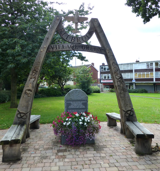 An image of the memorial on Bilbrook Village Green, featuring a Boulton Paul Defiant aeroplane and carved historical information relating to the area.